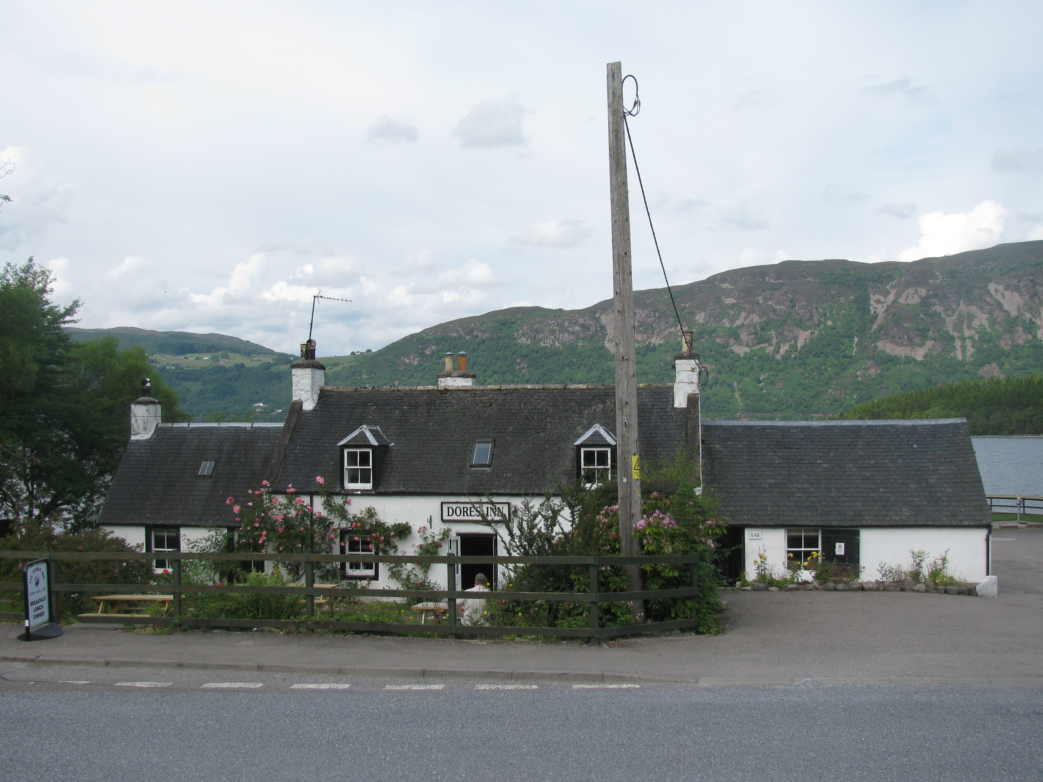 Dores Inn at Dores, Scotland